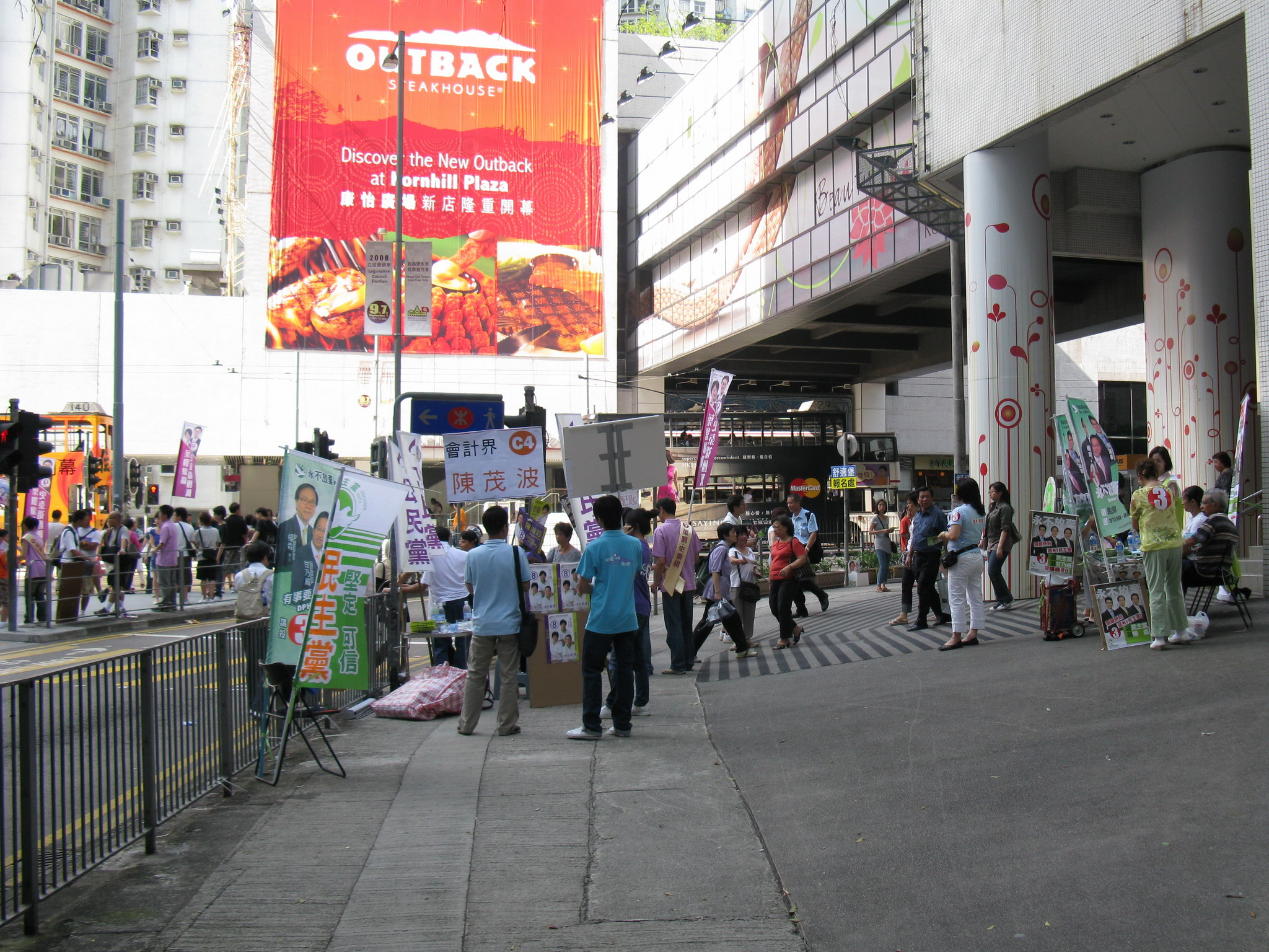 2008 Legislative Council Election Hong Kong Island Geographical Constituency